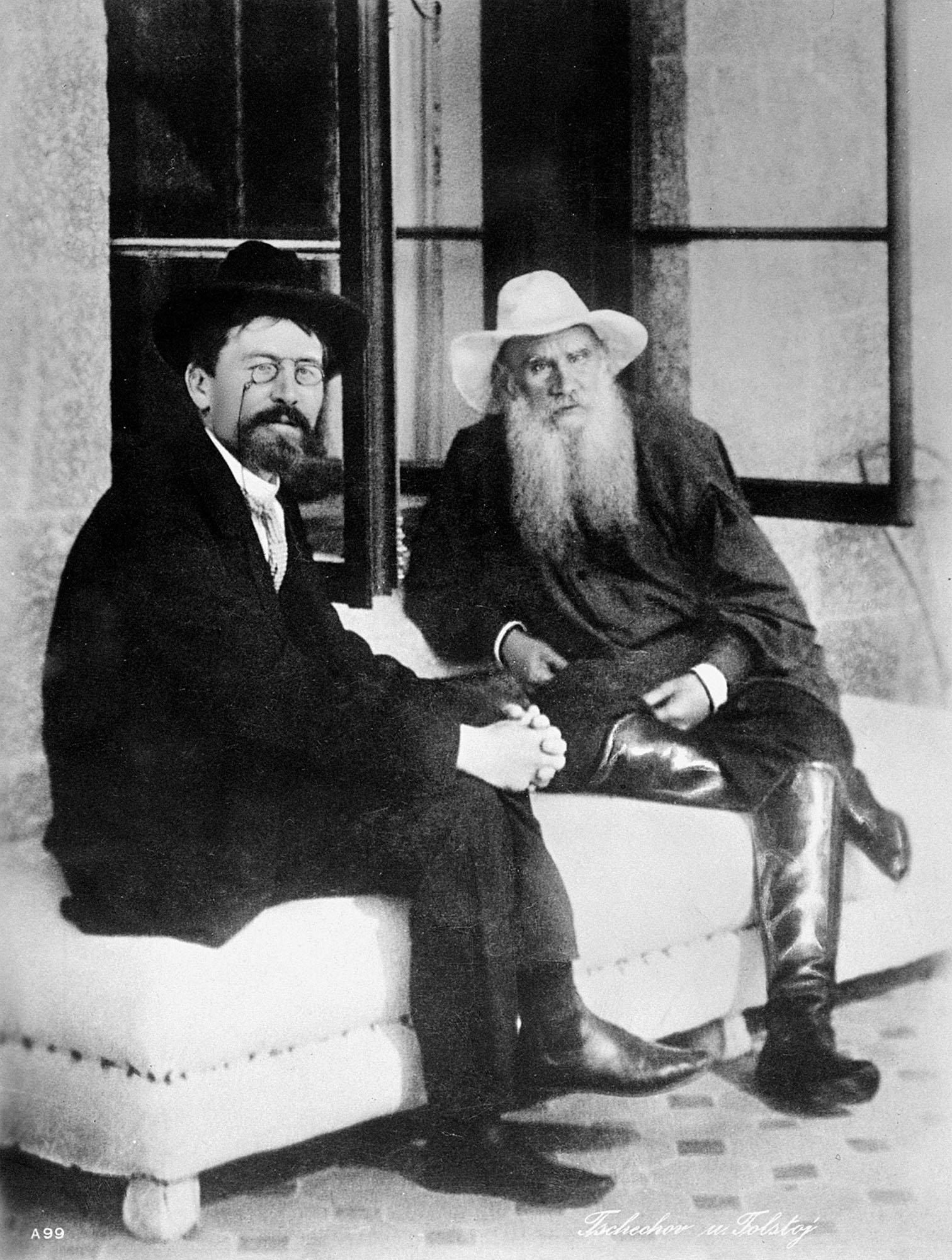 New file name only. I suspect that the "+" sign on the original file name for this photo breaks the "thumb" mechanism. Original from Commons: Tolstoy+Сhekhov.jpg (300 × 368 pixel, file size: 30 KB, MIME type: image/jpeg) Photograph of Leo Tolstoy and Anton Chekhov in Yalta.